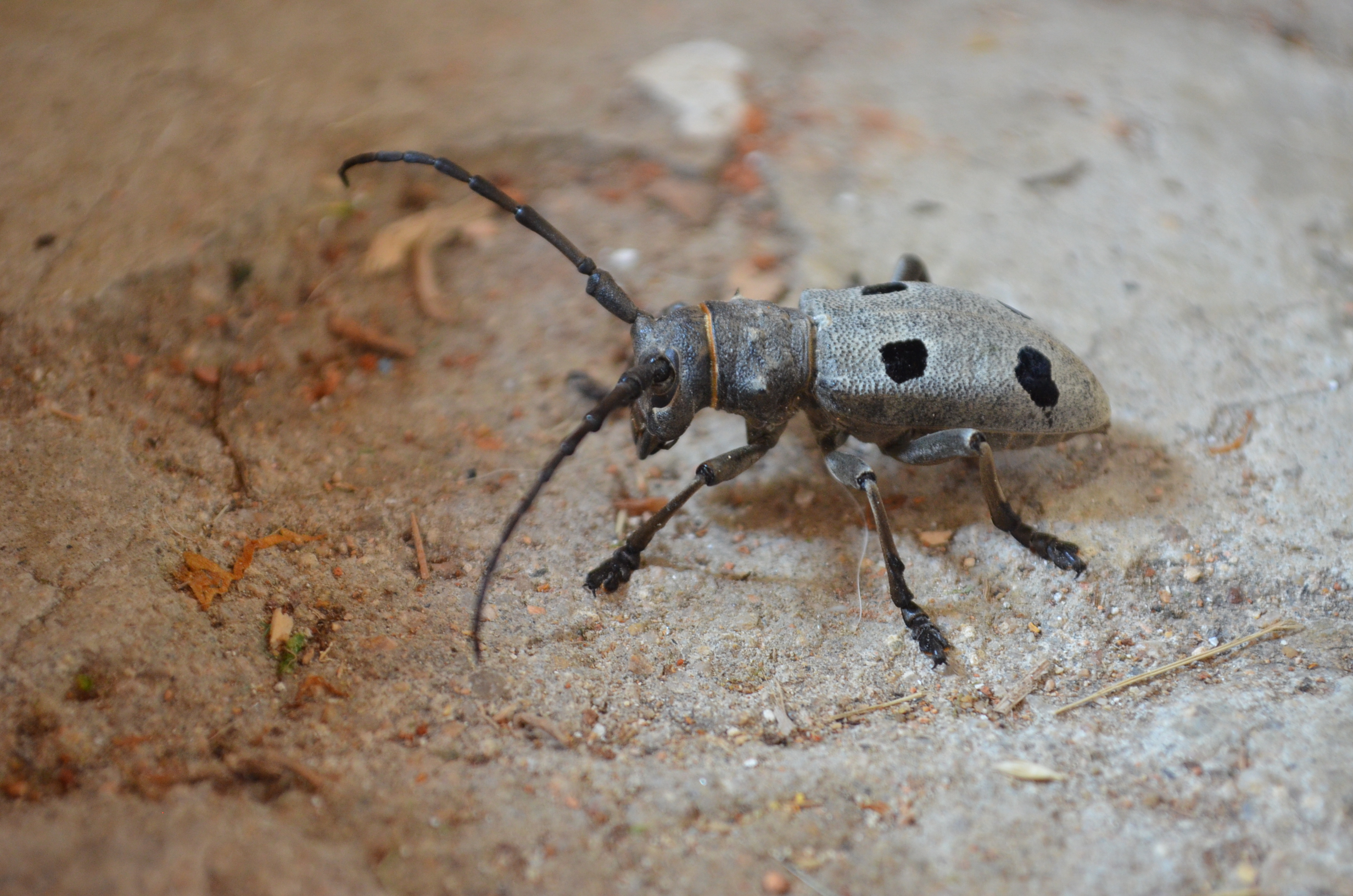 Morimus funereus is a species of beetle in family Cerambycidae. Bulgaria